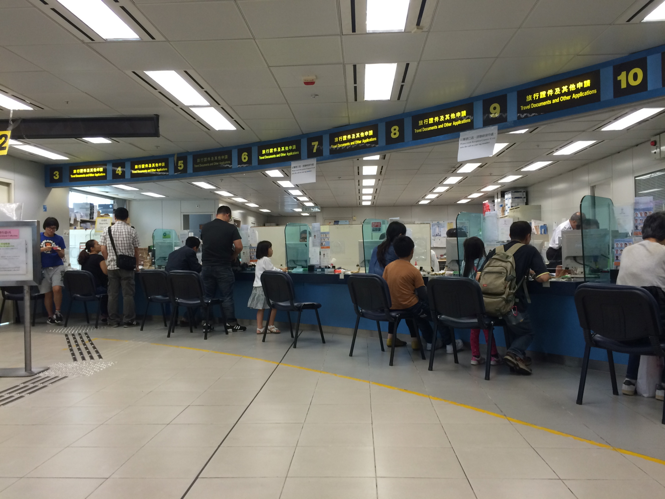 Immigration Branch Offices Shatin